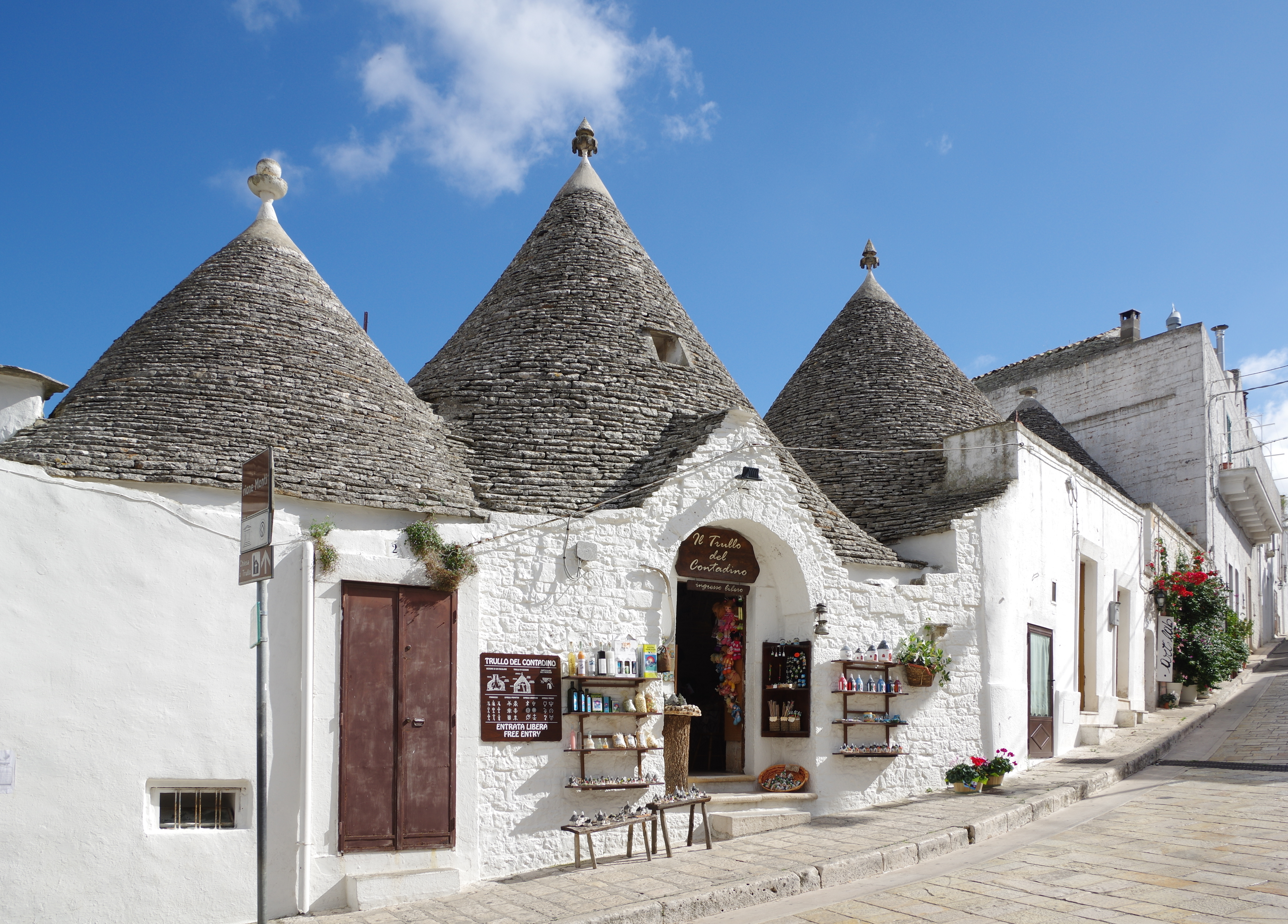 Italy, Alberobello, Trullo (Trulli)